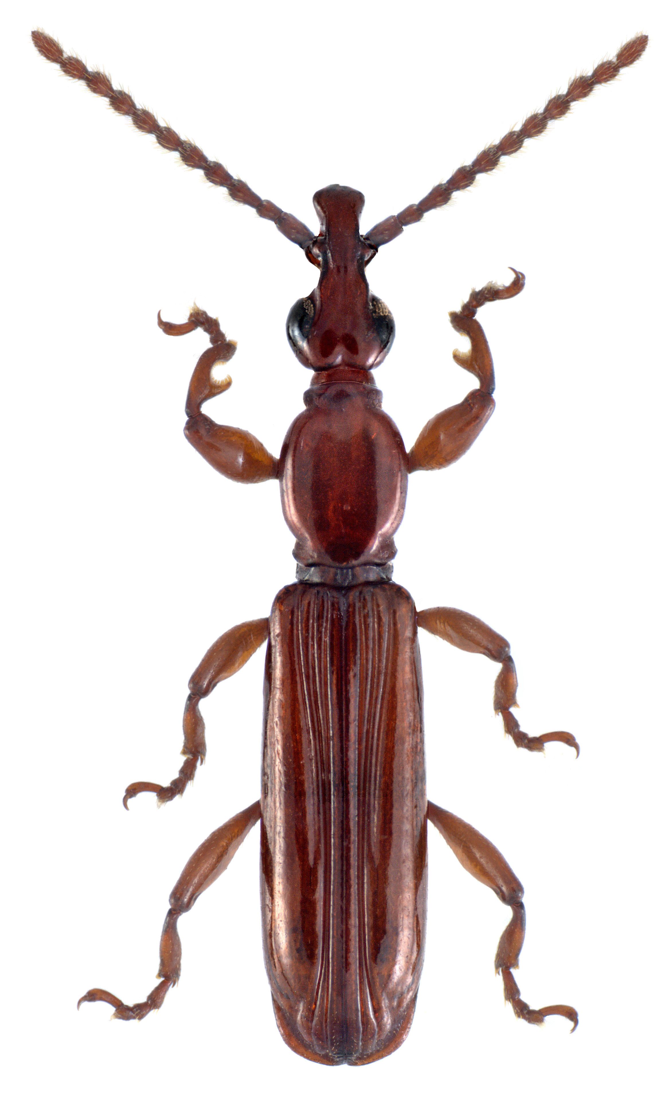 Family: Brentidae Size: 5,4 mm Location: Malaysia, Langkawi, environment Hotel Berjaya, under bark leg. U.Schmidt, 7.-22.XI.2009; det. A.Mantilleri, 2010 Photo: U.Schmdit, 2013